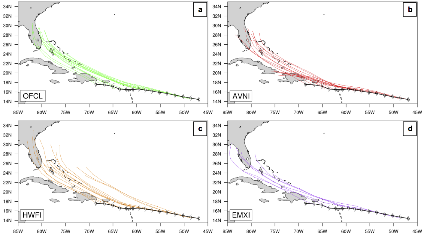 Visualization of official forecasts (green lines) by the National Hurricane Center and select forecast models for Tropical Storm Erika in 2015 versus the finalized best track.